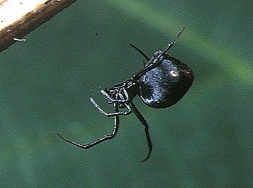 female Spheropistha melanosoma from Okinawa.